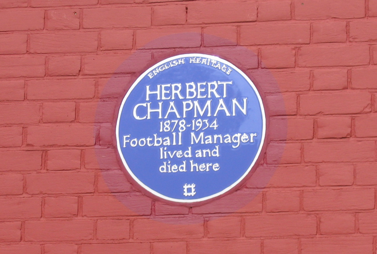 Blue plaque outside the former resident of Arsenal FC manager Herbert Chapman